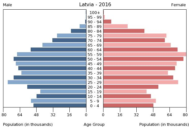 The population pyramid of Latvia illustrates the age and sex structure of population and may provide insights about political and social stability, as well as economic development. The population is distributed along the horizontal axis, with males shown on the left and females on the right. The male and female populations are broken down into 5-year age groups represented as horizontal bars along the vertical axis, with the youngest age groups at the bottom and the oldest at the top. The shape of the population pyramid gradually evolves over time based on fertility, mortality, and international migration trends.